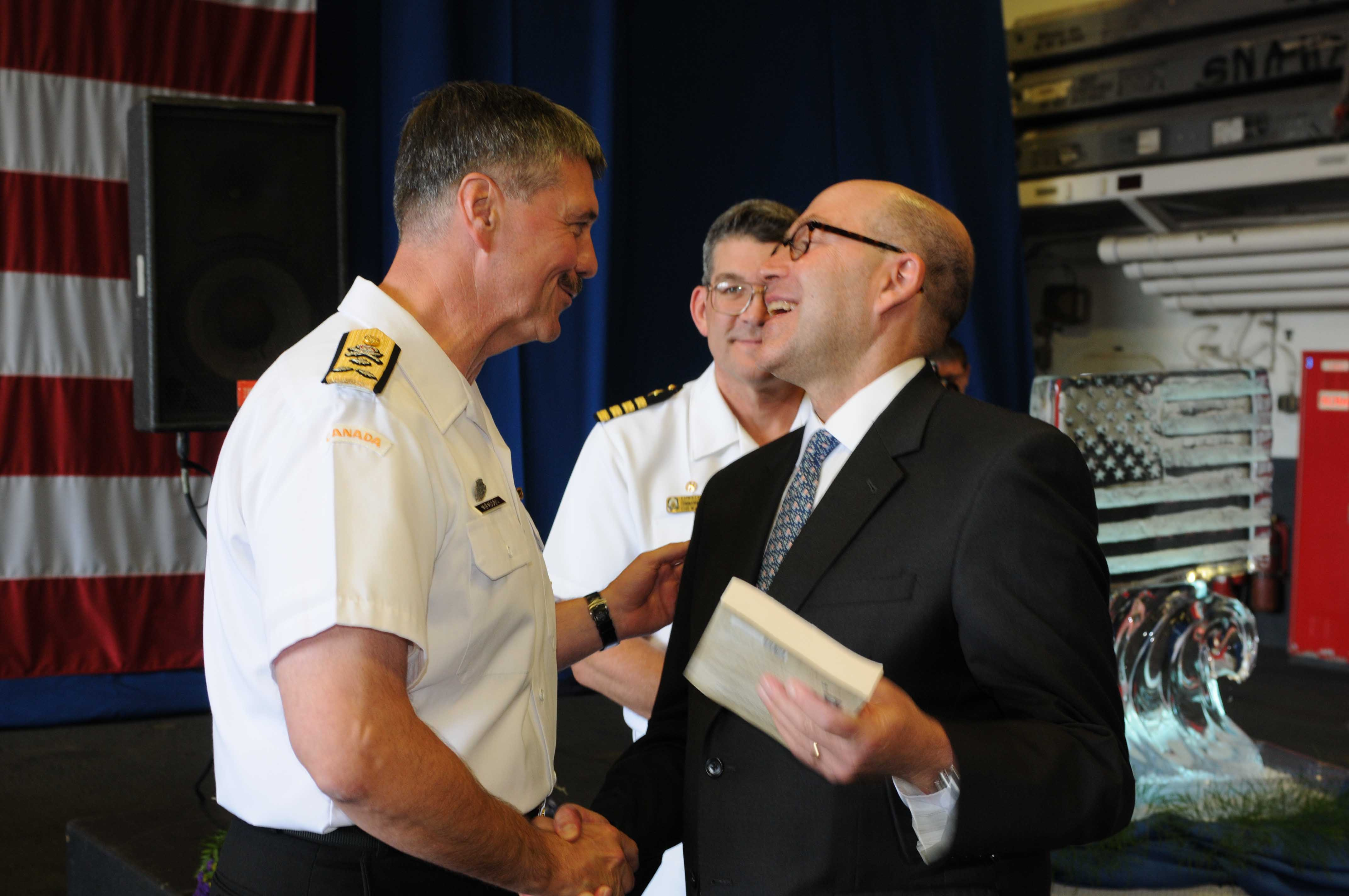 Canadian Maritime Command Vice Adm. Dean McFadden, left, Canada's Chief of Maritime Staff, presents a book regarding the History of Canada's Navy to the U.S. Ambassador to Canada David Jacobson during a reception commemorating Canada's Navy Centennial and International Fleet Review aboard the amphibious assault ship USS Wasp (LHD 1) June 30, 2010, while in port in Halifax, Nova Scotia, Canada June 30, 2010. (U.S. Navy photo by Mass Communication Specialist 1st Class Justin K. Thomas/Released)